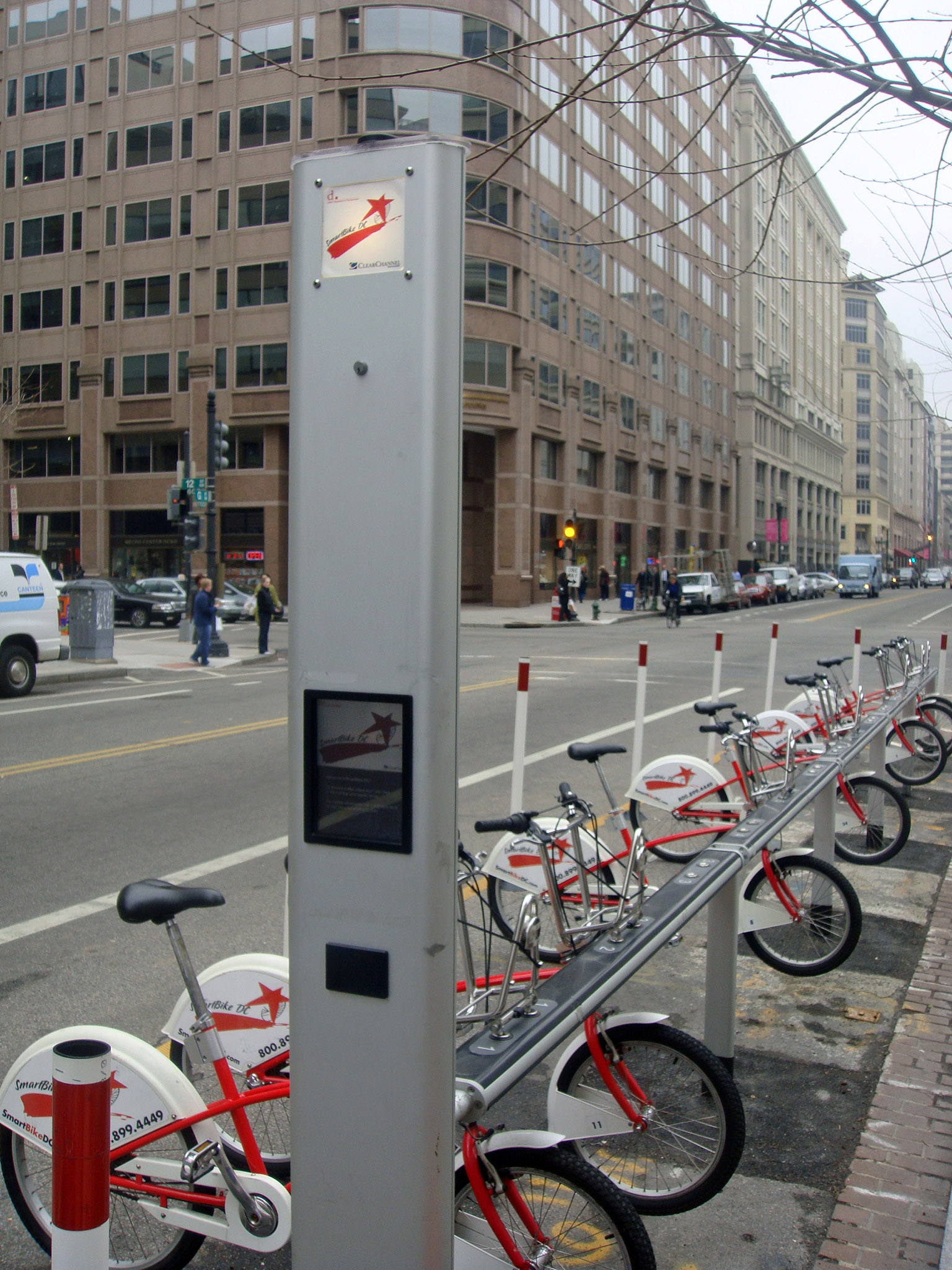 SmartBike DC bike rental site at downtown Washington, D.C.